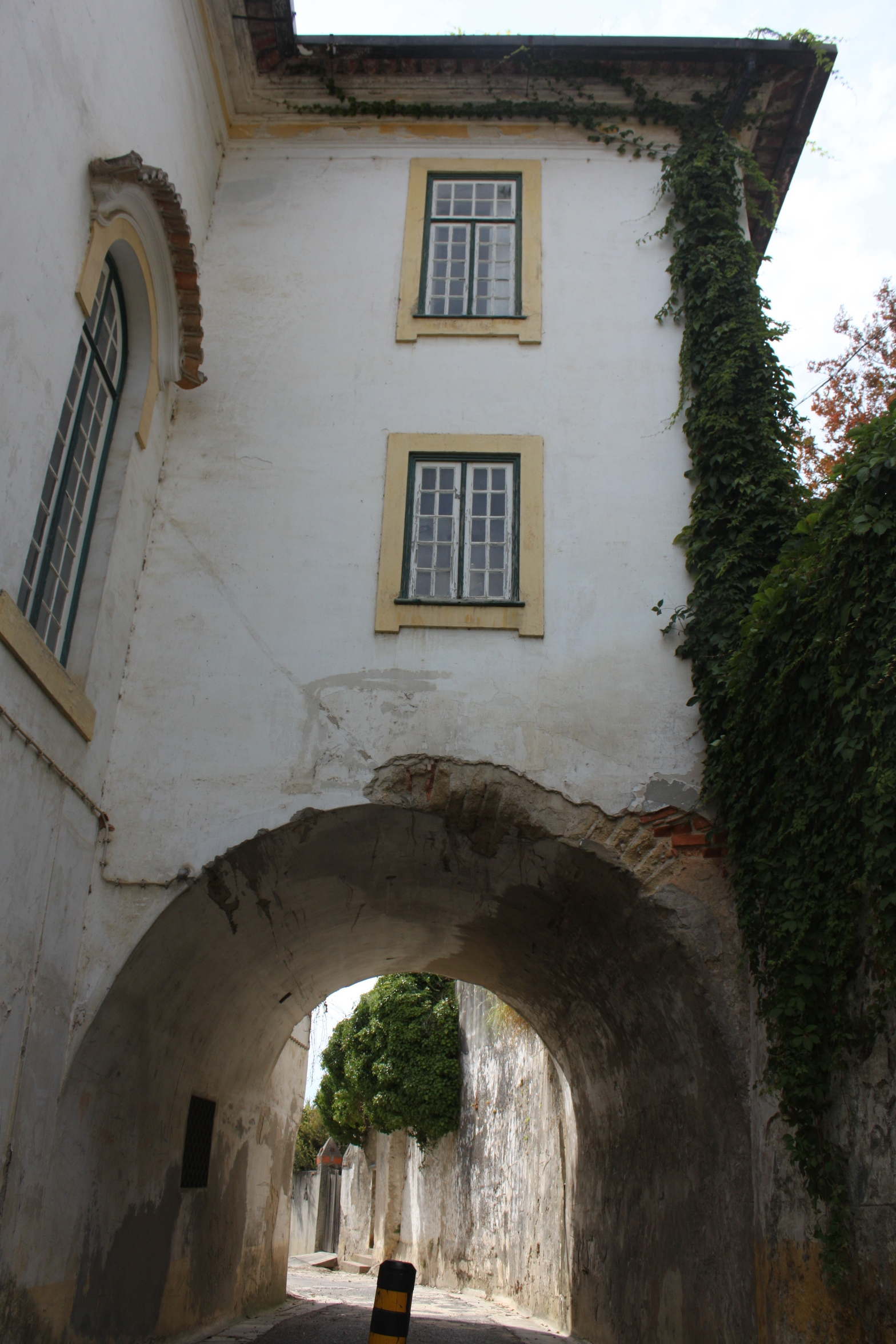 This file was uploaded for Wiki Loves Monuments in Portugal with the unique identifier 97008631.